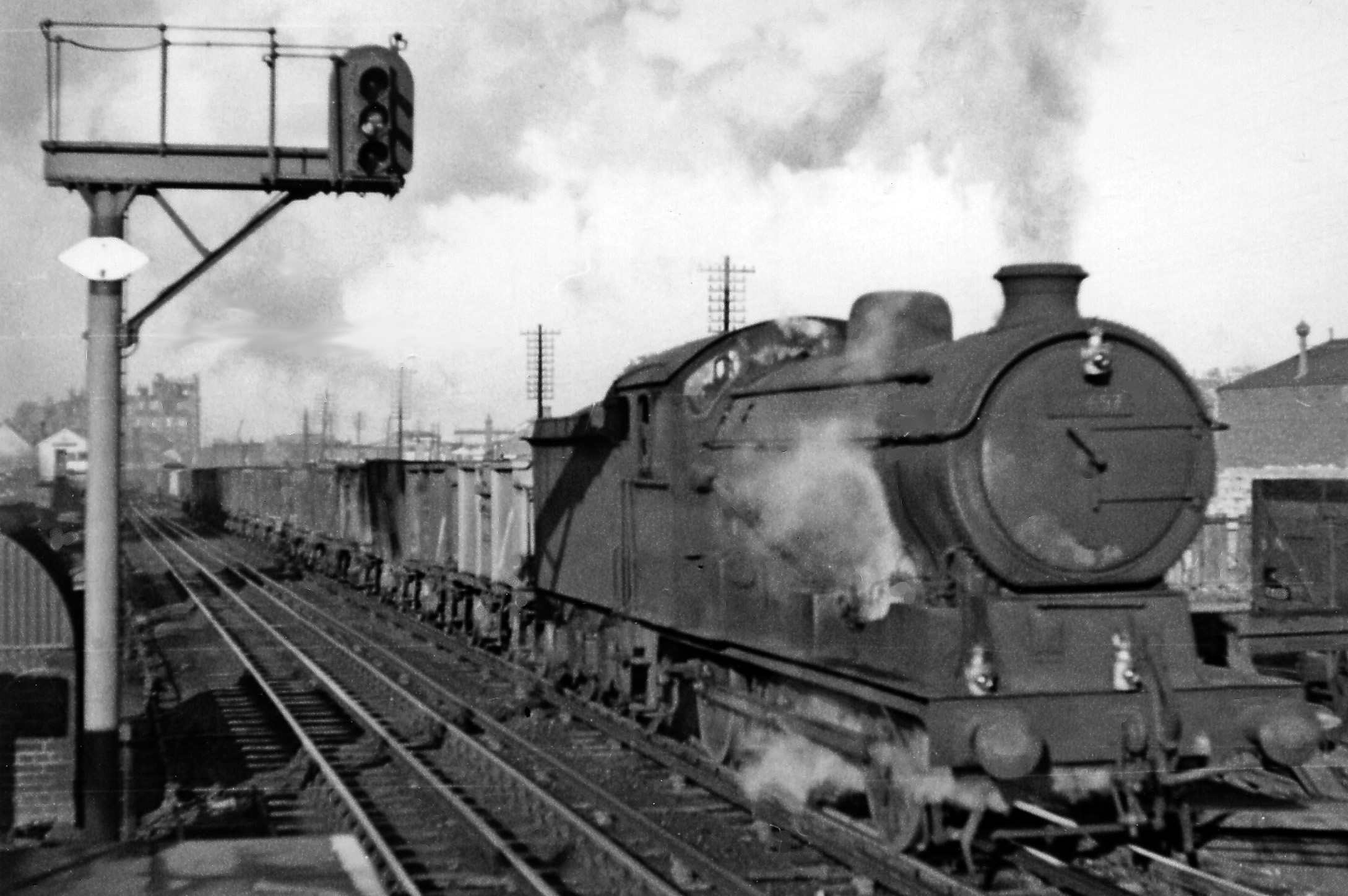 Up (eastbound) freight on the North London line approaching Finchley Road & Frognal station. View westward, towards West End Lane Box and Station, Willesden Junction etc. (See TQ2584 : Westbound freight on North London line at Finchley Road & Frognal for details). The train was probably for Temple Mills Yard (Leyton), coming from the SR with a Gresley rebuild of ex-GE Hill J19 0-6-0 No. 64657.